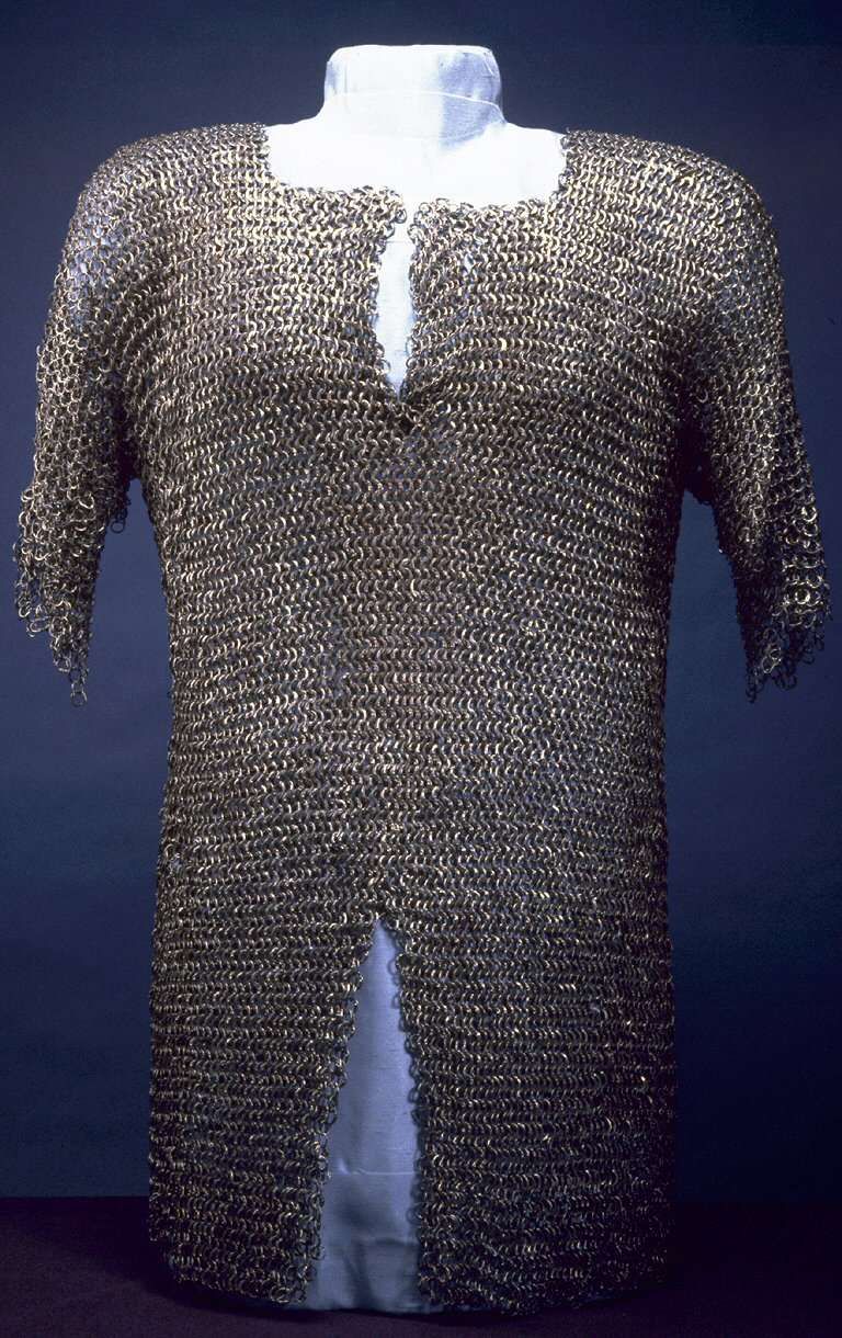 The mail (from the Latin word for mesh) worn by the Romans was made from interlocking iron rings, but the development during the Middle Ages of the capacity to refine iron into steel-harder and more durable than iron-meant higher quality armor as well as weapons. A typical shirt has about 30,000 rings, each individually riveted, and might weigh about 16 or 17 pounds. A shirt of mail was worn over a padded garment to protect the skin and soften the effect of a blow. It is more flexible than plate armor but is heavier for the wearer because all the weight is suspended from the shoulders. Mail was gradually replaced by plate armor in the 14th century, though it continued to be worn by some infantry soldiers and to fill gaps in a knight's armor.